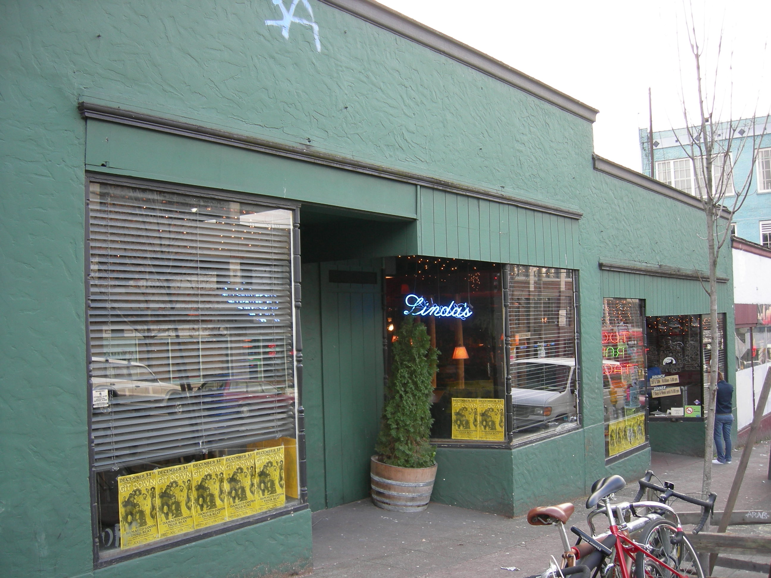 Linda's (bar). South side of E. Pine Street about a half block west of Harvard Ave. Pike-Pine Corridor, Capitol Hill, Seattle, Washington. Named after owner Linda Derschang, it was originally (1994) Linda's Tavern before it got a full liquor license. Before that, it was a Middle Eastern restaurant called Ali Baba.